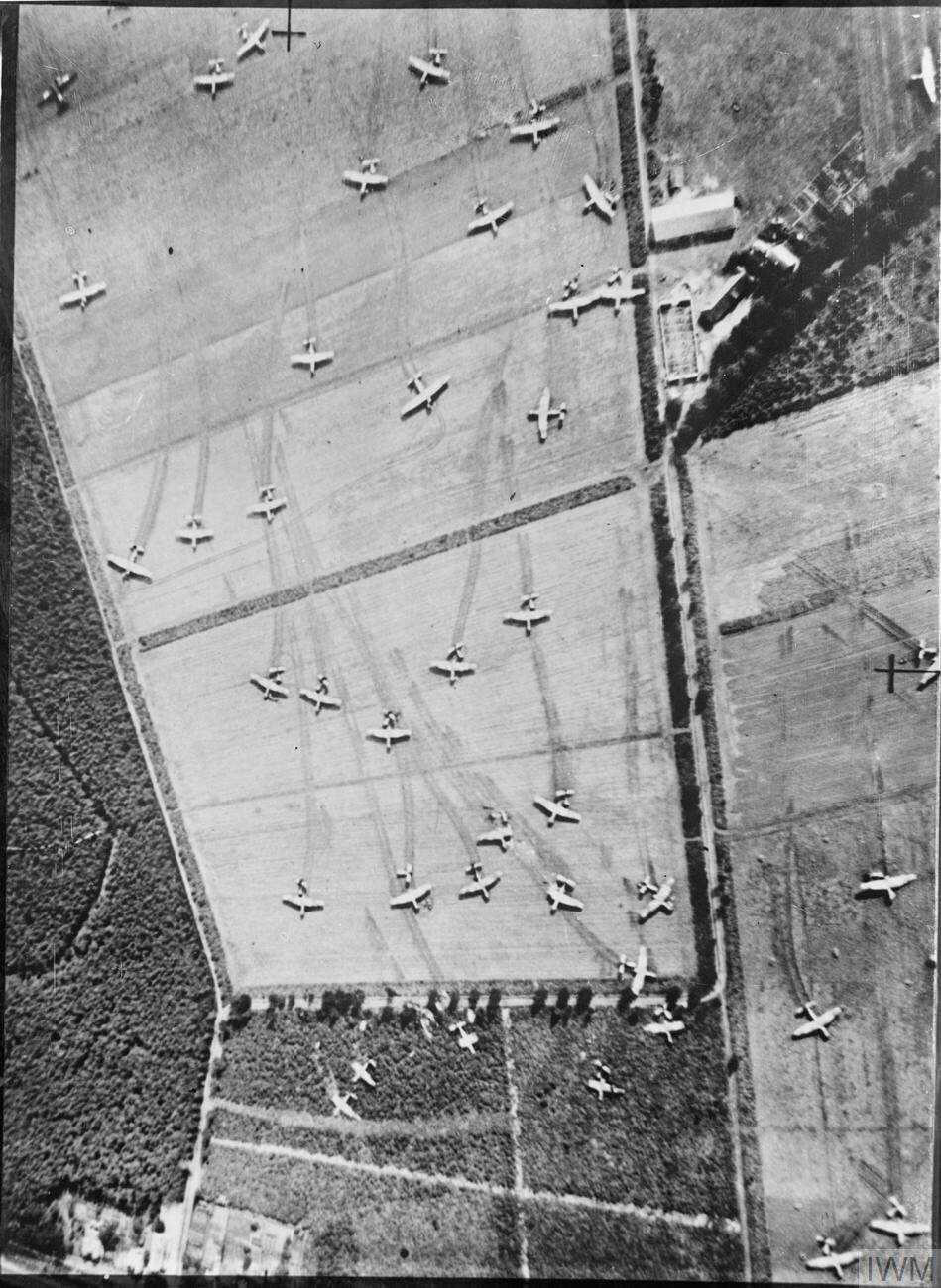 Operation MARKET I: the airborne operation to seize bridges between Arnhem and Eindhoven, Holland, (part of Operation Market Garden). Vertical photographic-reconnaissance aerial showing Airspeed Horsa and General Aircraft Hamilcar on Landing Zone (LZ) 'Z' near Wolfheze woods, west-north-west of Arnhem. 17 September 1944